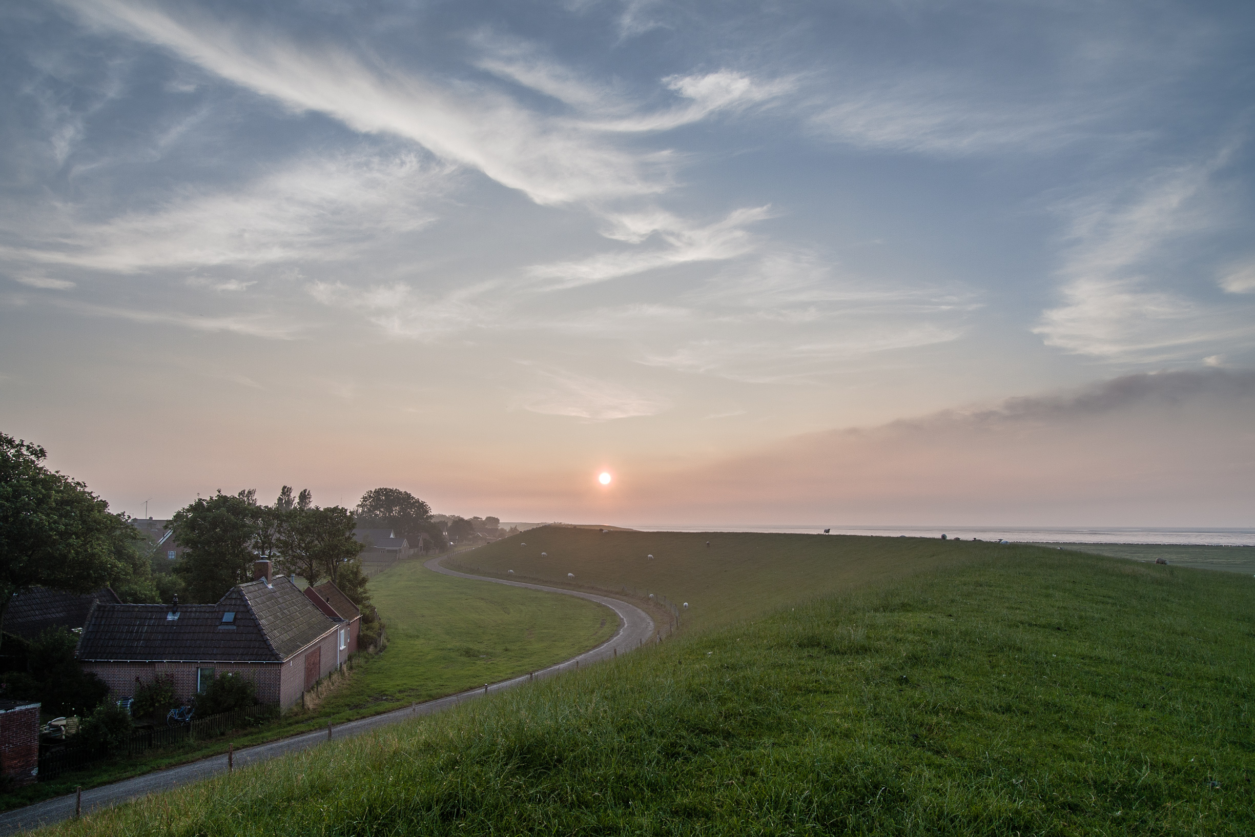 Sunset Peasens-Moddergat seen from the sea dike